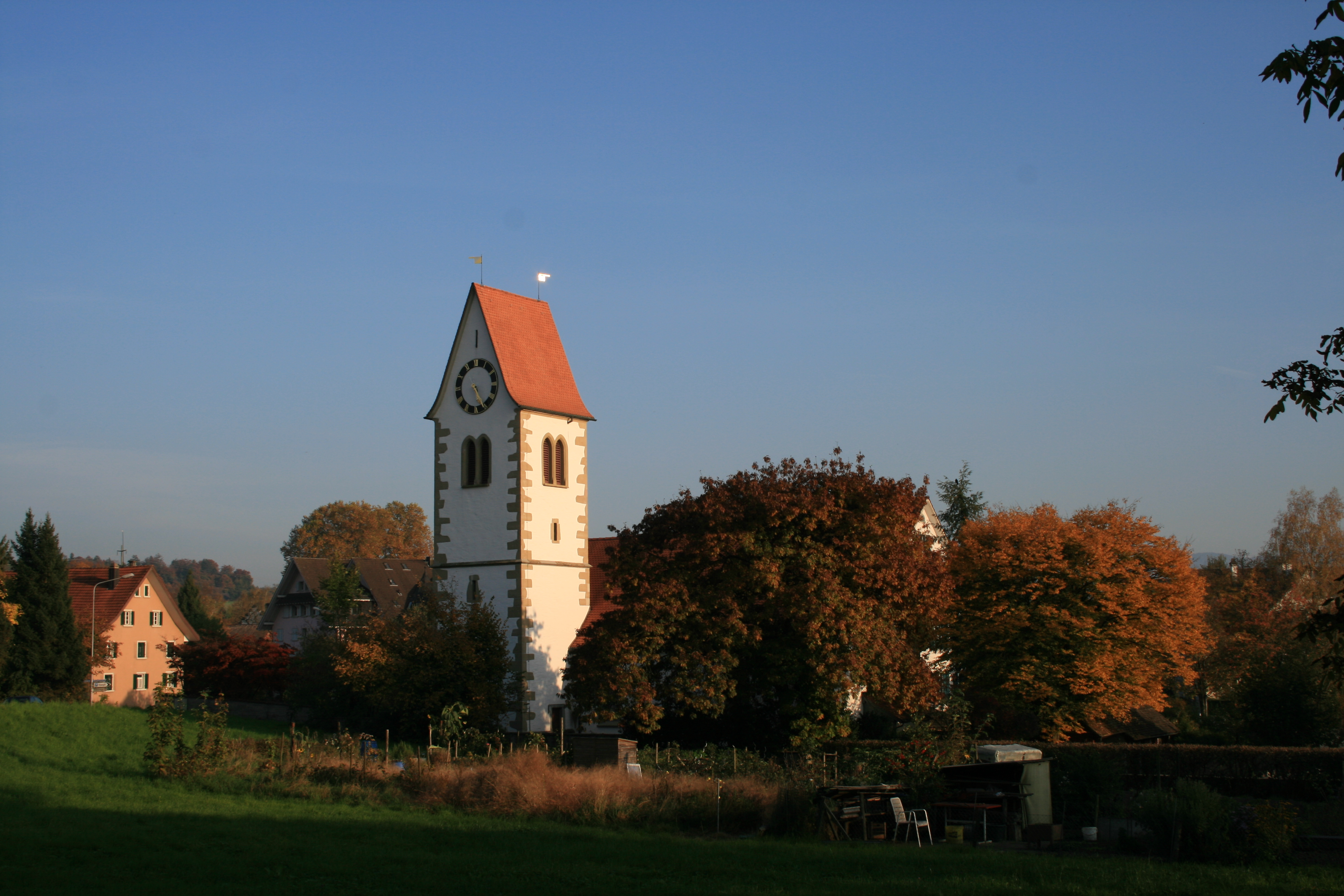 The reformed church of Knonau, Canton of Zurich. Switzerland